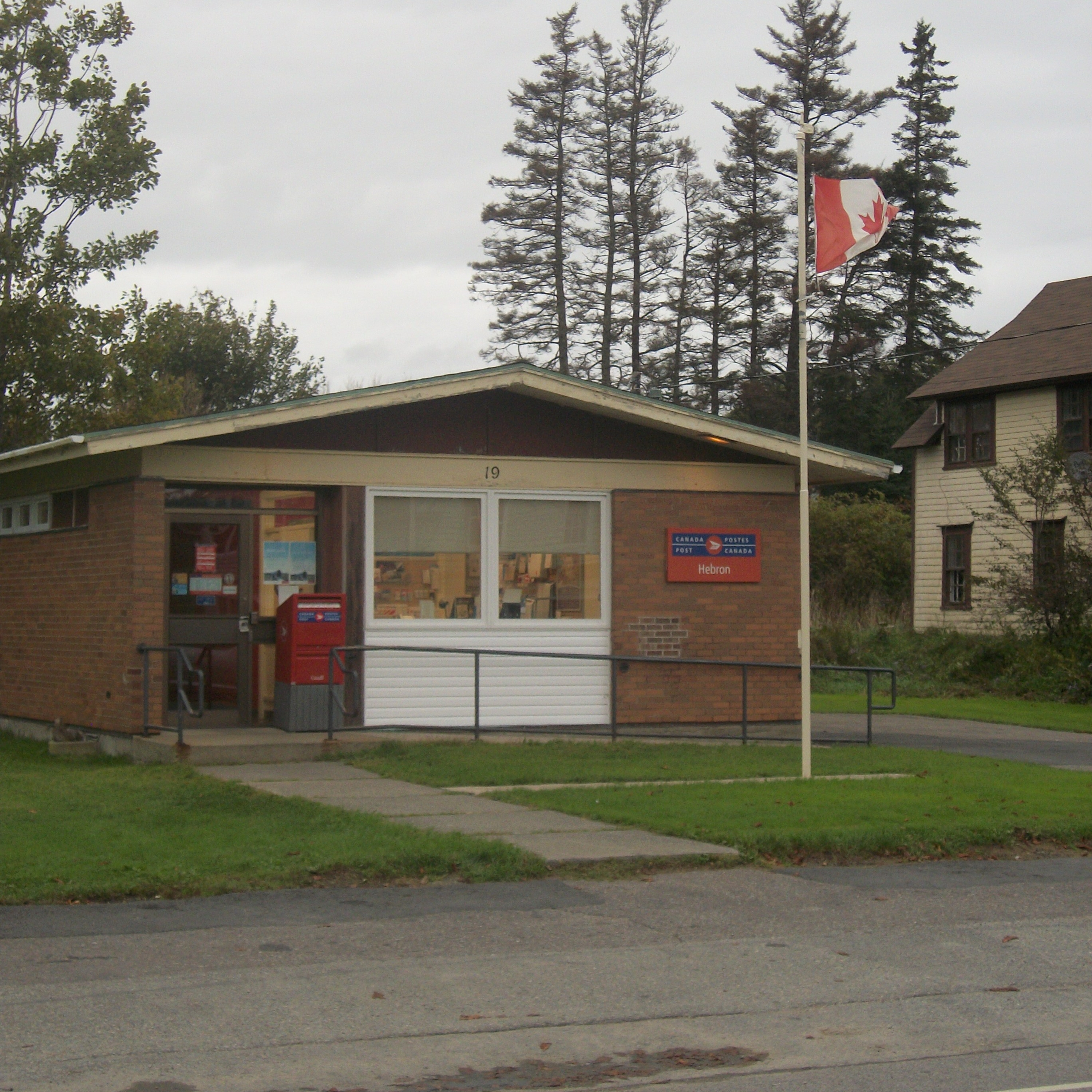 Hebron Post Office, Yarmouth County, Nova Scotia